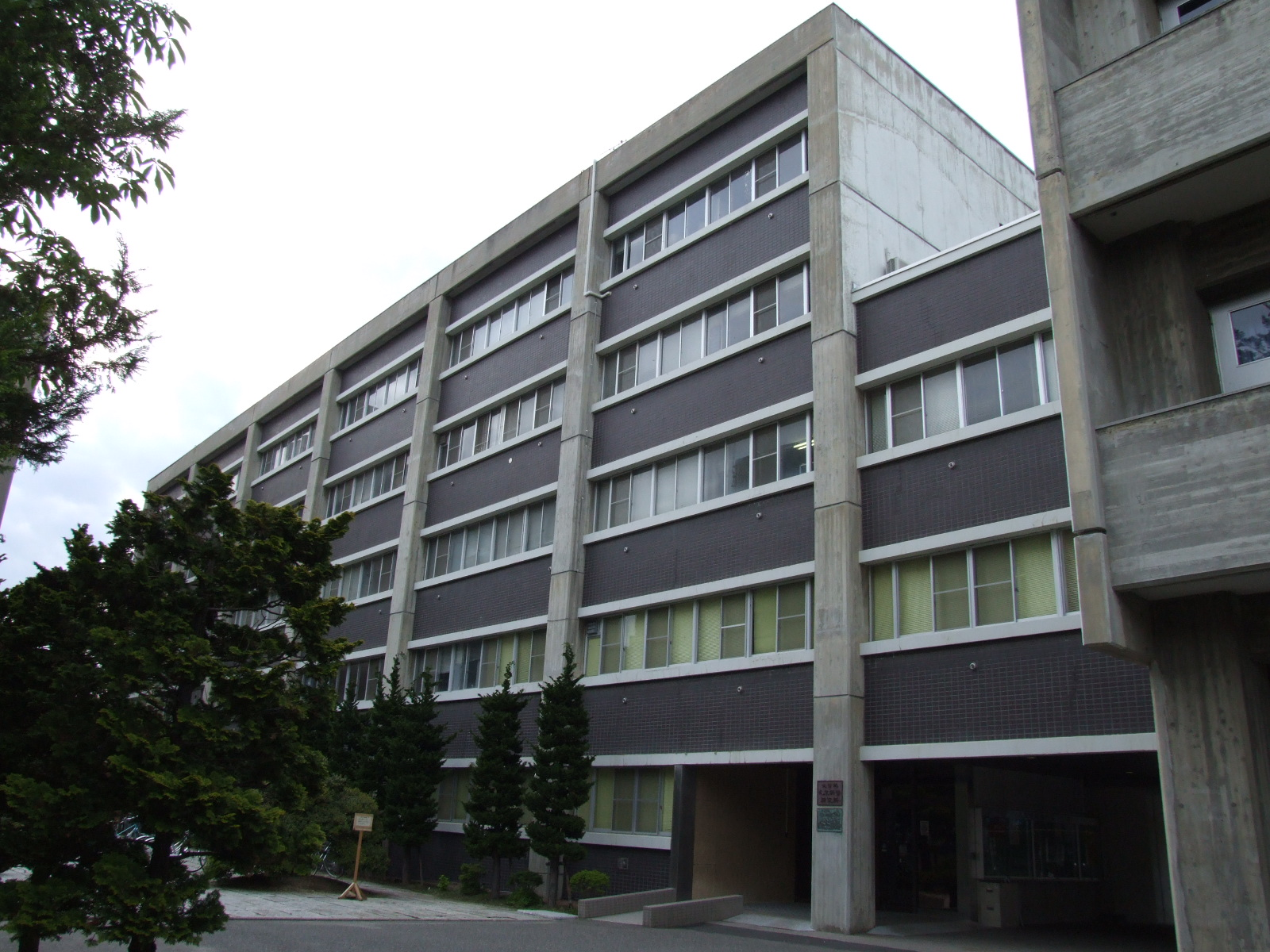 Building of Shinshu University Faculty of Arts